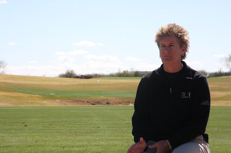 Shirley Furlong, golf instructor